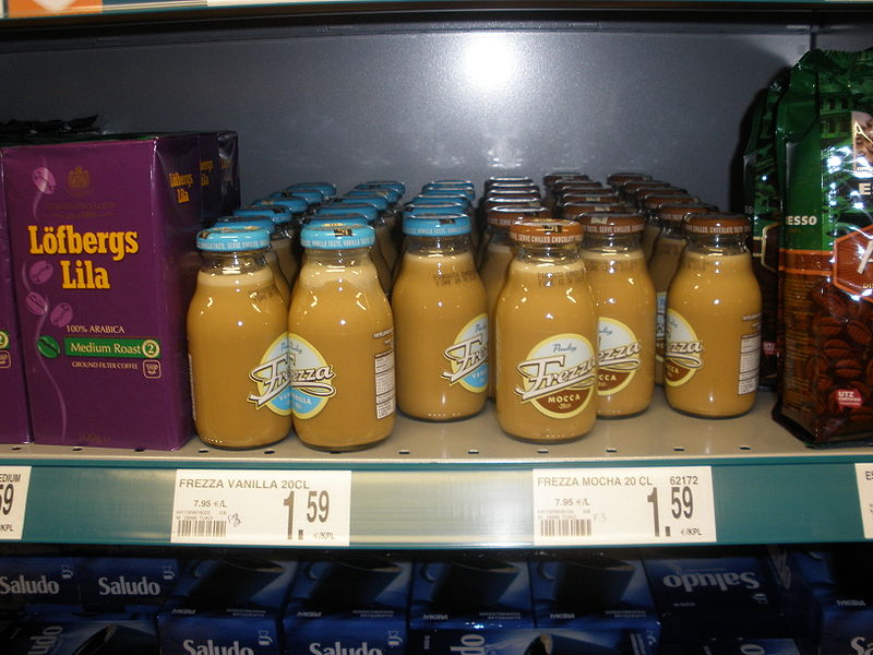 Frezza drinks.